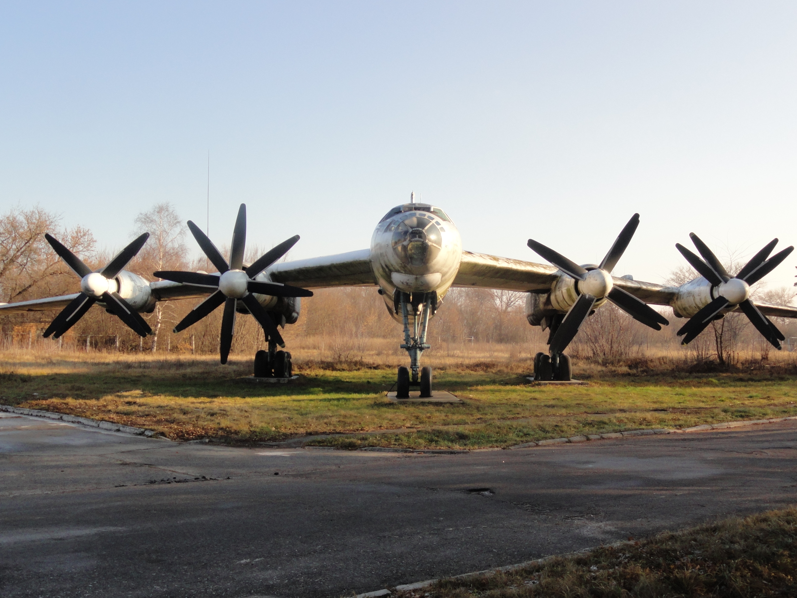 Tu-95 in Uzin airbase, Ukraine, 2011.